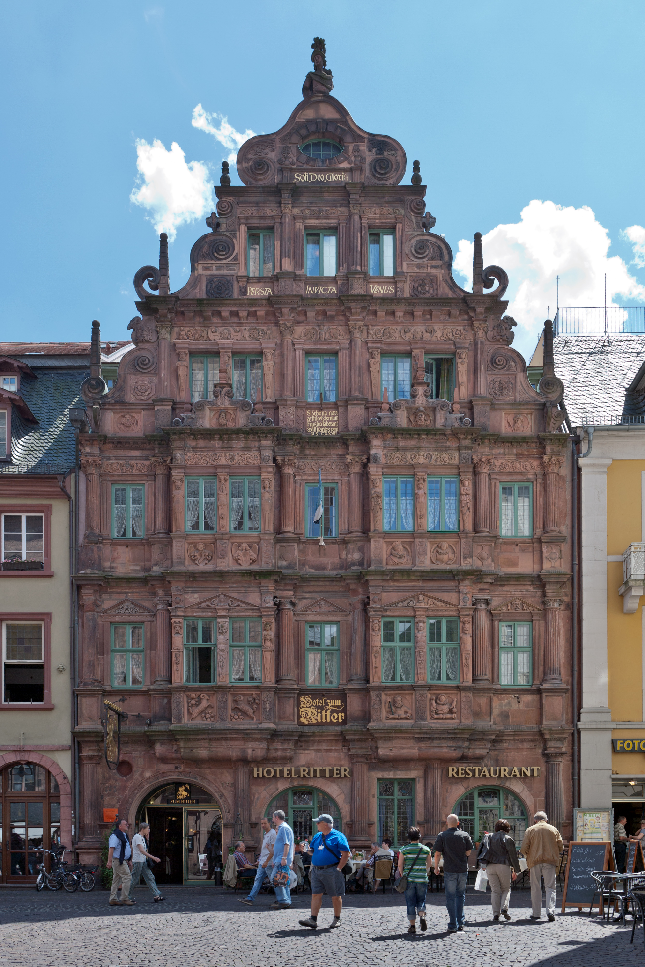 Heidelberg: Haus zum Ritter (House to the Knight) as seen from the north